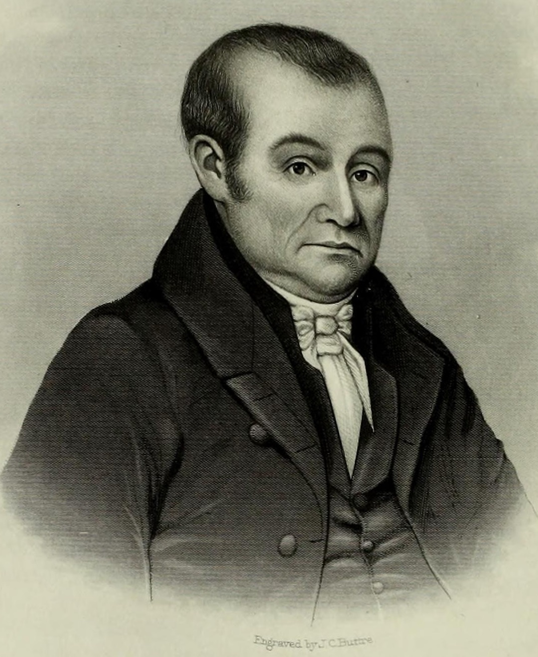 Asa Lyon (Vermont Congressman)